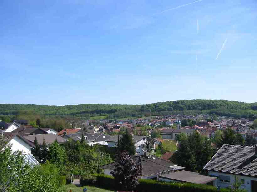 Dielheim, Germany in the summer.